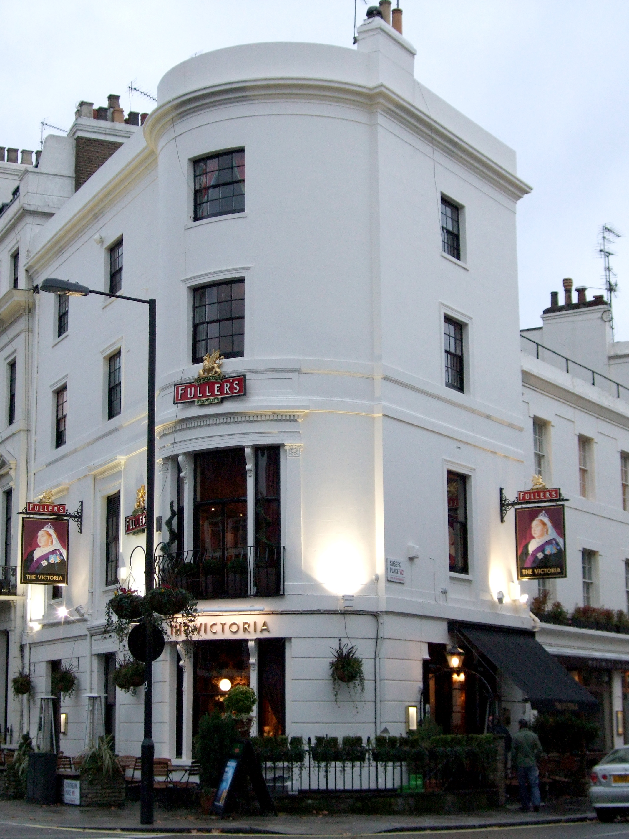 A highly-regarded Fuller's pub, very nice, if a bit small inside (though it has an upstairs room). (Photos of brie sandwich and nut roast.) Address: 10a Strathearn Place (formerly at Little Sussex Place). Owner: Fuller Smith Turner (website); Charrington (former). Links: Randomness Guide to London Fancyapint Beer in the Evening Qype CAMRA National Inventory Dead Pubs (history)